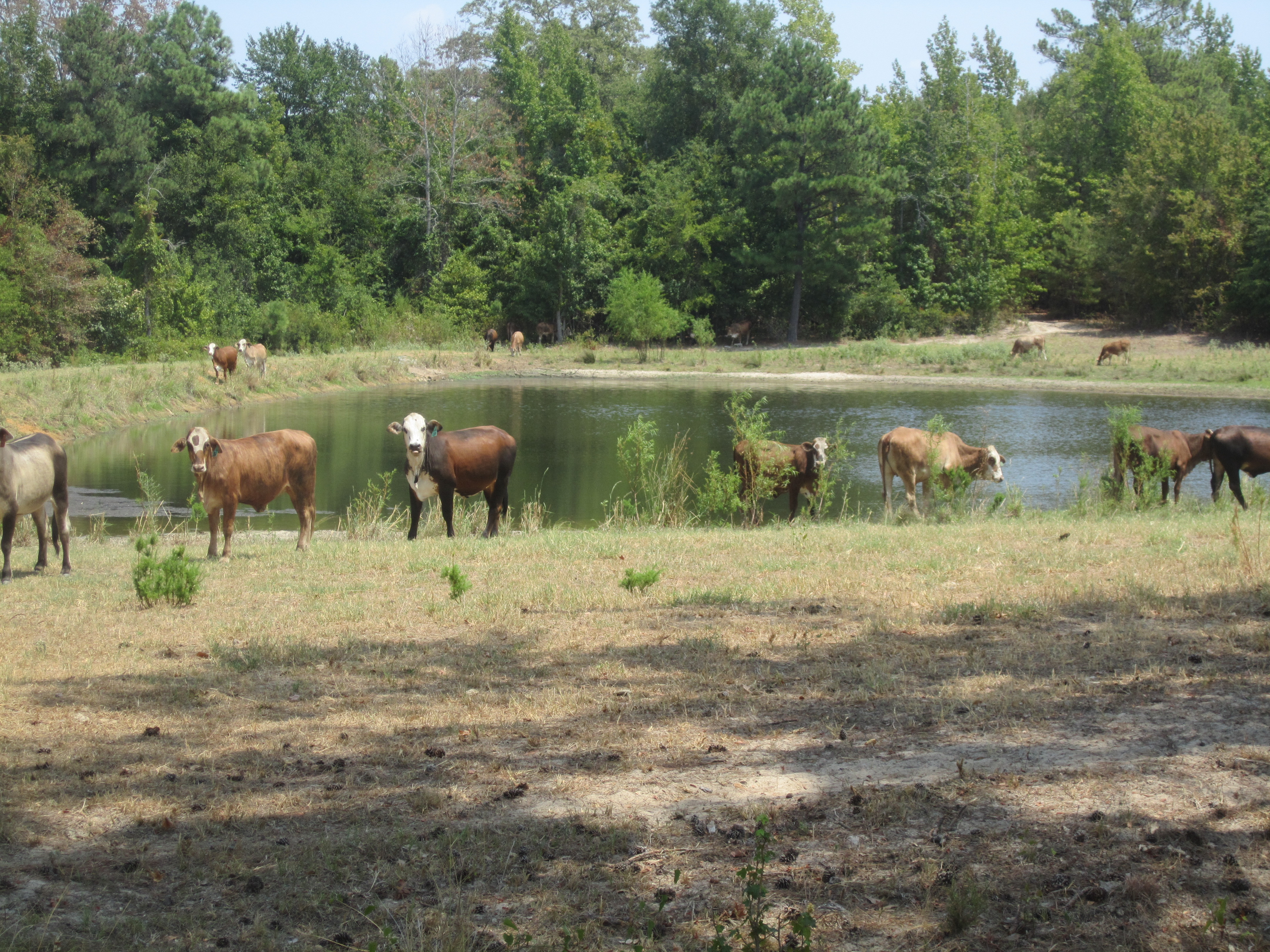 I took photo of cattle at the pond west of Winona, TX, using Canon camera.